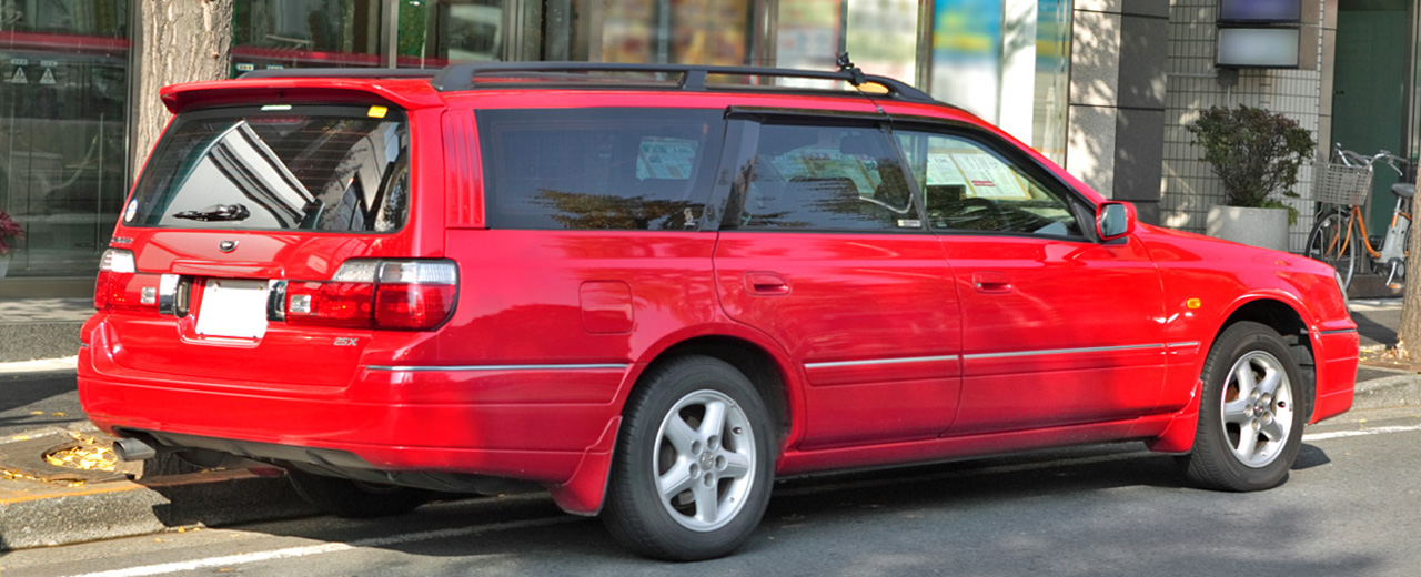 Nissan Stagea 25X later type